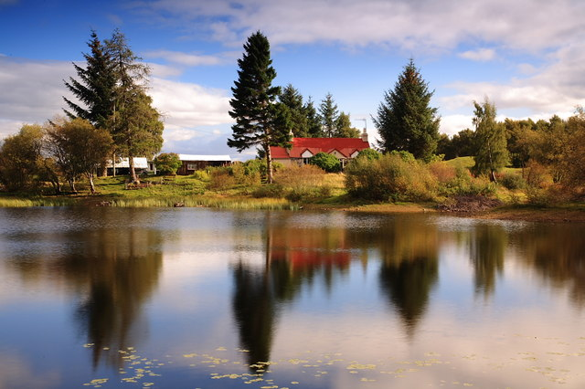 Avielochan